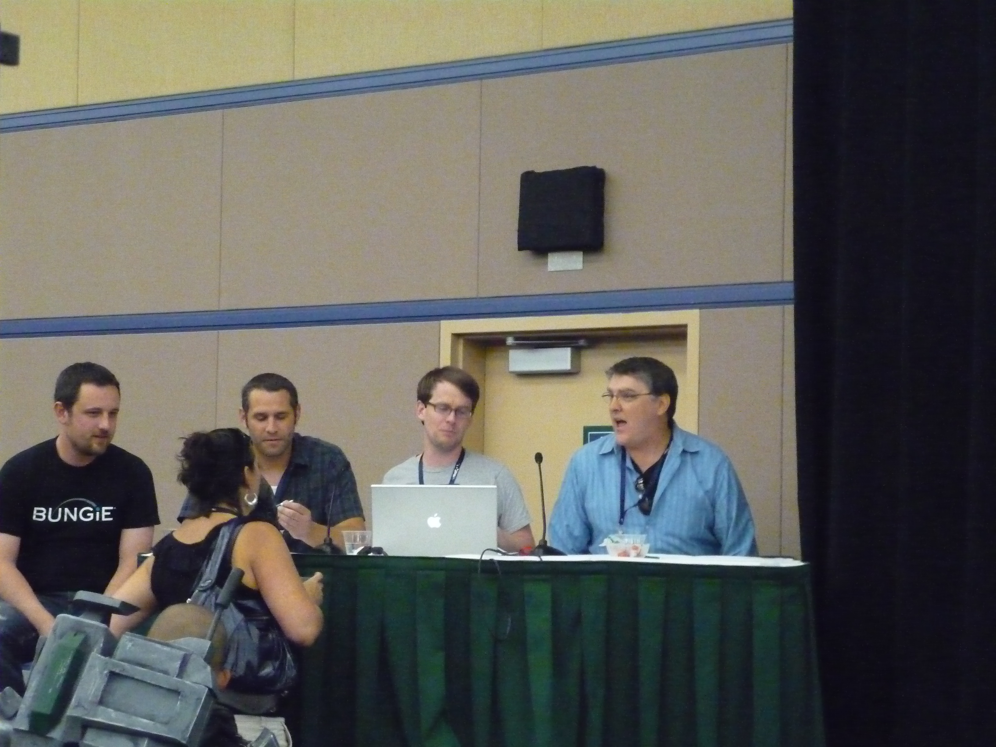 Video game developer Bungie staffers discuss their game, Halo 3: ODST, at Penny Arcade Expo 2009. From left to right: CJ Cowan, director of cinematics; mission designer Paul Bertone; story director Joseph Staten, and composer Martin O'Donnell.